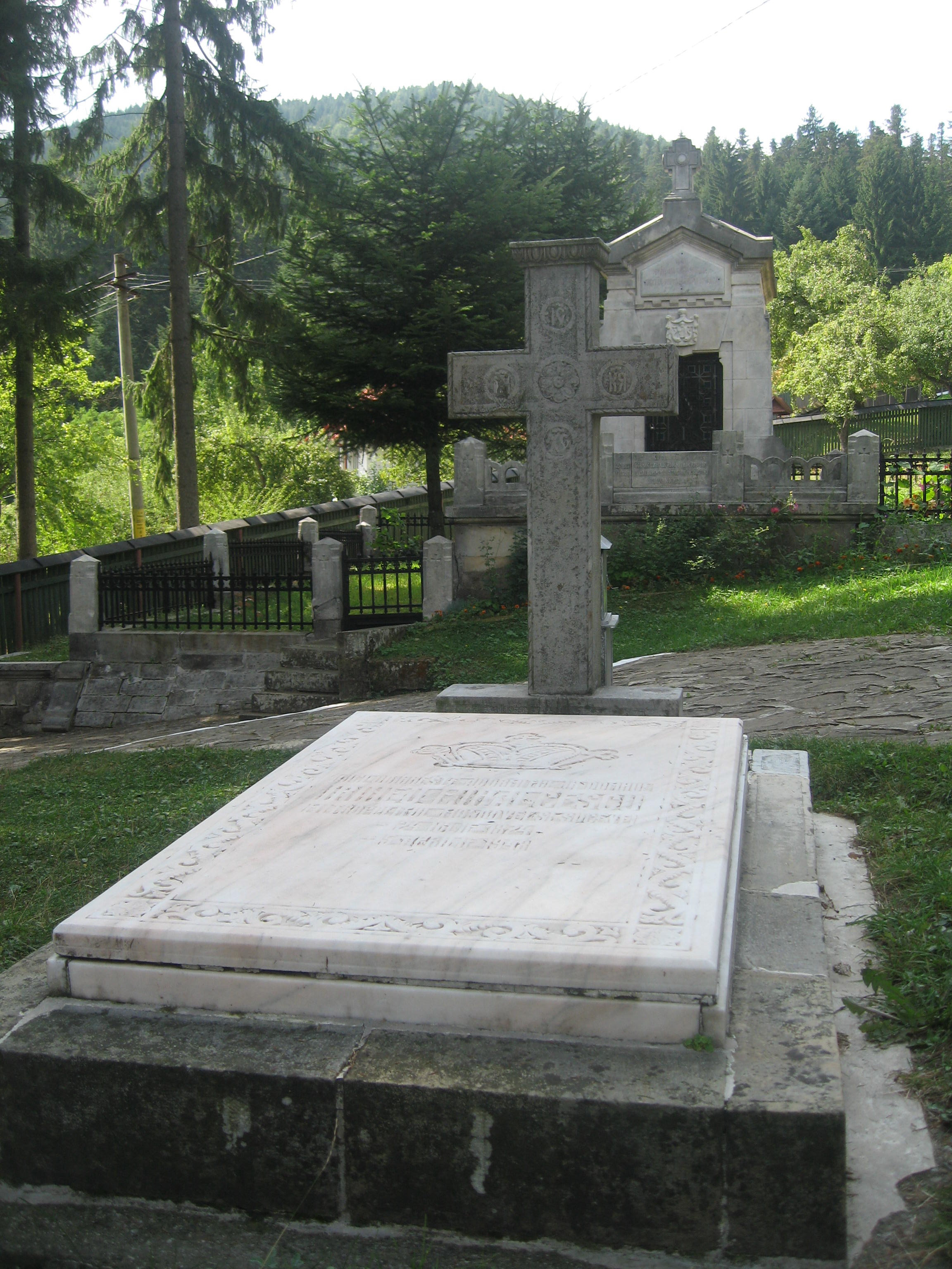 Irineu Mihălcescu